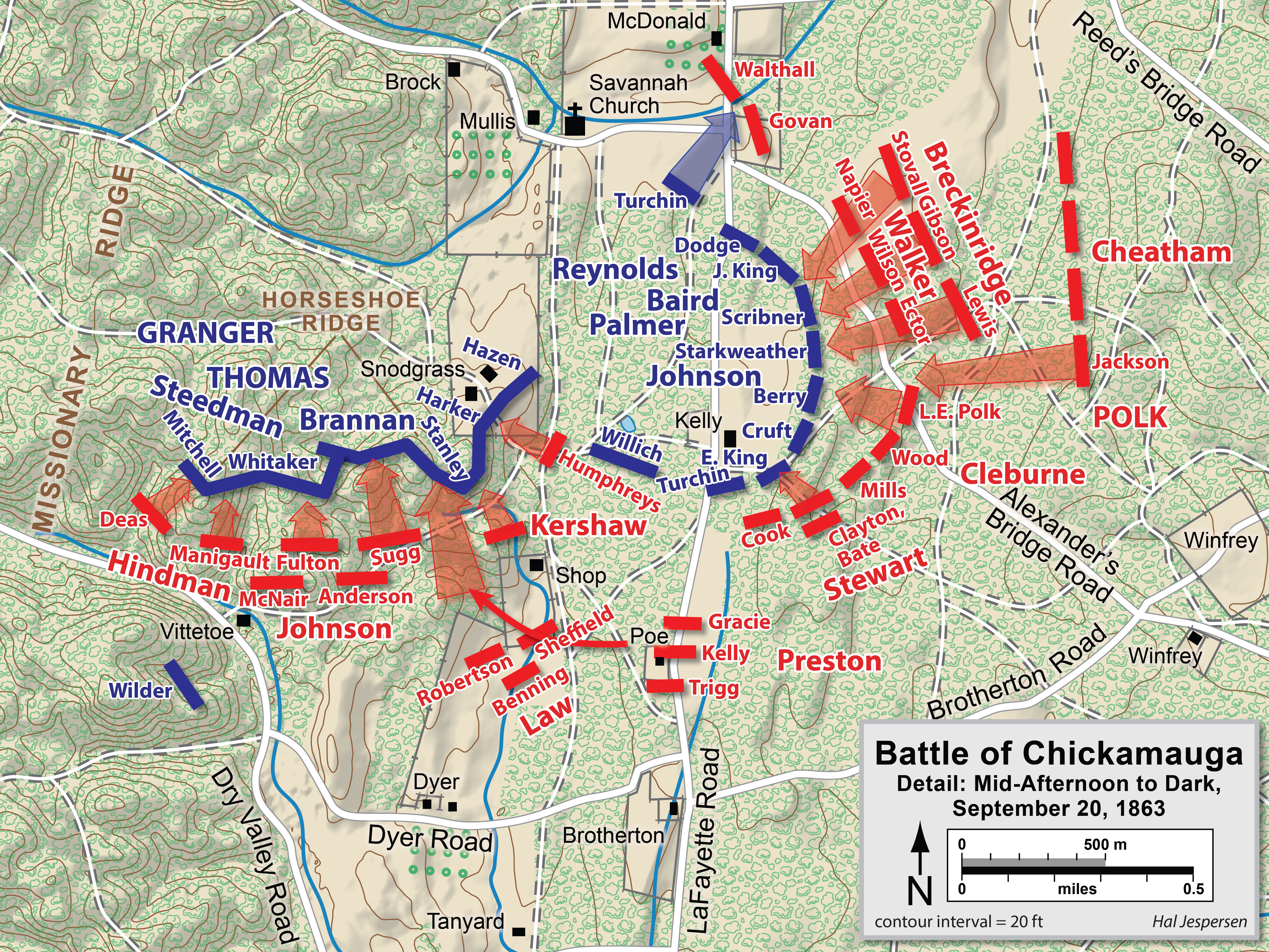 Map of Battle of Chickamauga of the American Civil War, actions on September 20, 1863, part 3 (brigade details). Drawn in Adobe Illustrator CS5 by Hal Jespersen. Graphic source file is available at